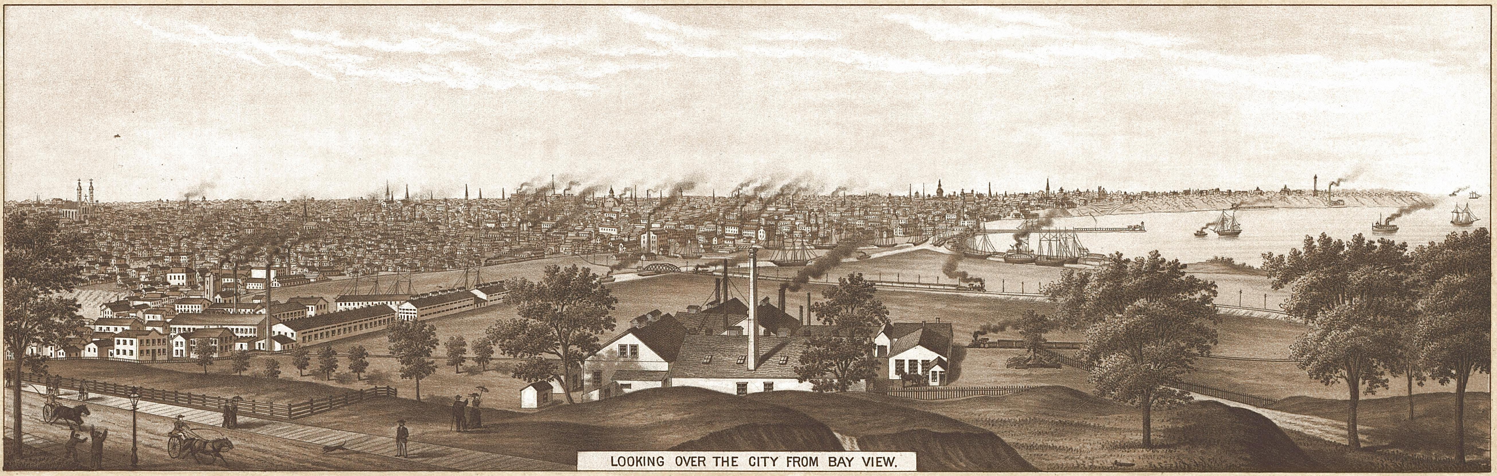 1882 drawing of looking over Milwaukee from Bay View. Derived from public domain image uploaded at